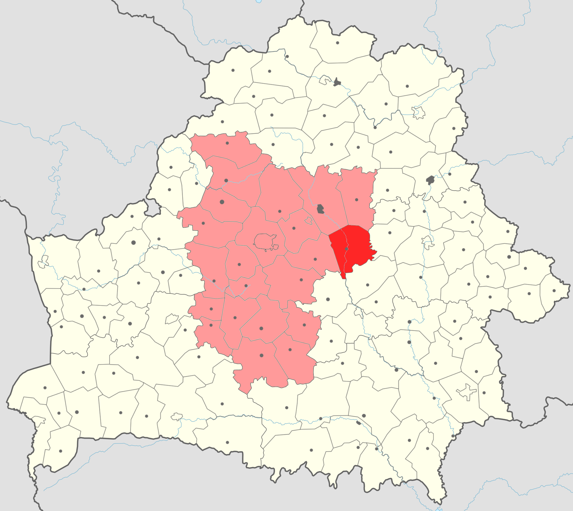 Map of Biarezina (Berezino) rayon (in red) with Minsk voblast' (in light red) on the map of Belarus.